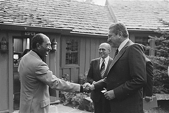 Anwar Sadat greets Ezer Weizman, Israeli Defense Minister